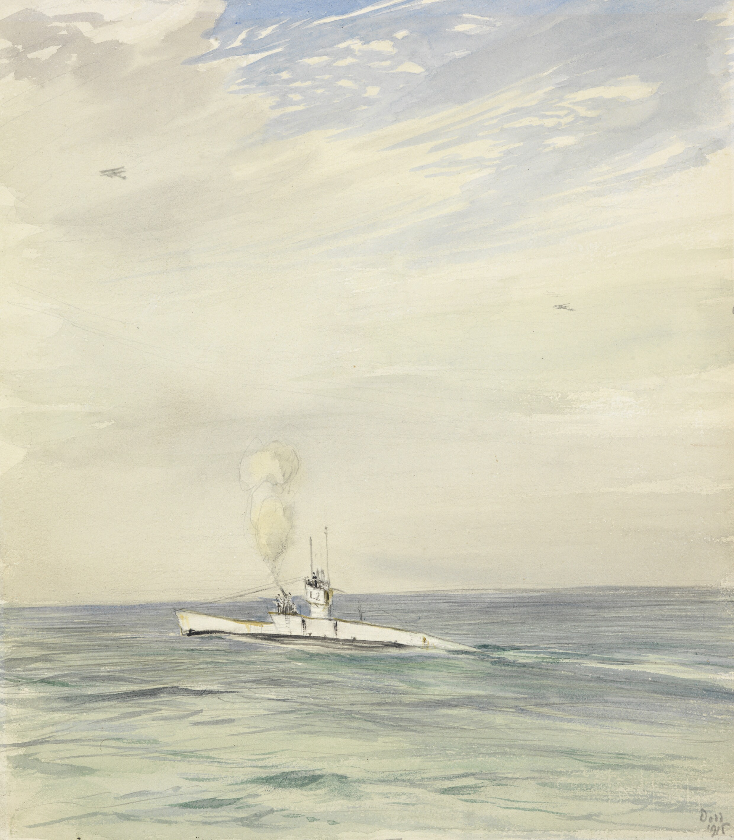 Firing at Aircraft. Hm Submarine L2 image: a seascape with a submarine on the surface, firing its deck gun. In a large skyscape, two aircraft are seen in the distance.